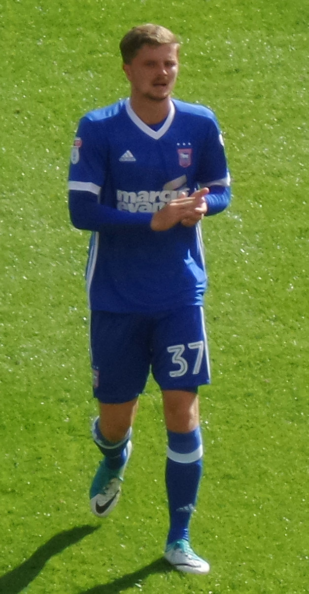 Adam McDonnell playing for Ipswich Town at Barnsley on 12 August 2017